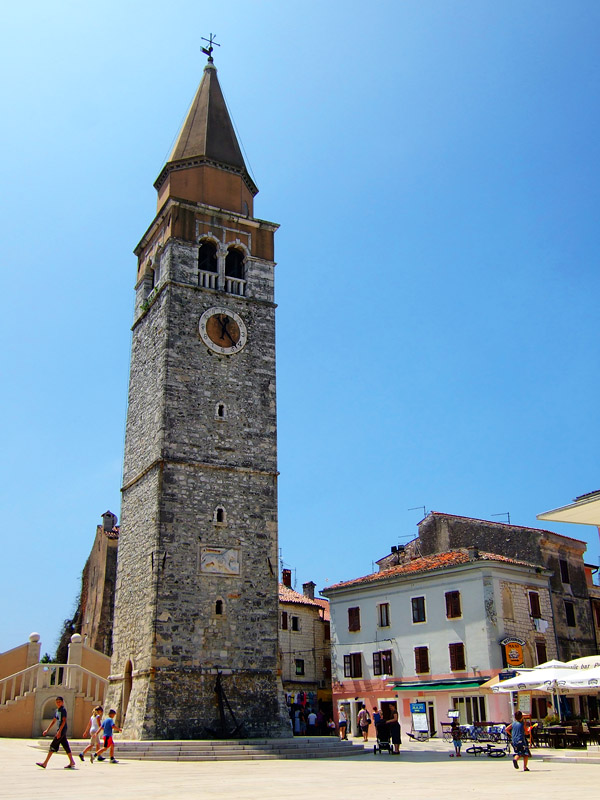 15th century bell tower of Parish church of the Assumption of the Virgin Mary and St. Peregrine in Umag, Croatia.